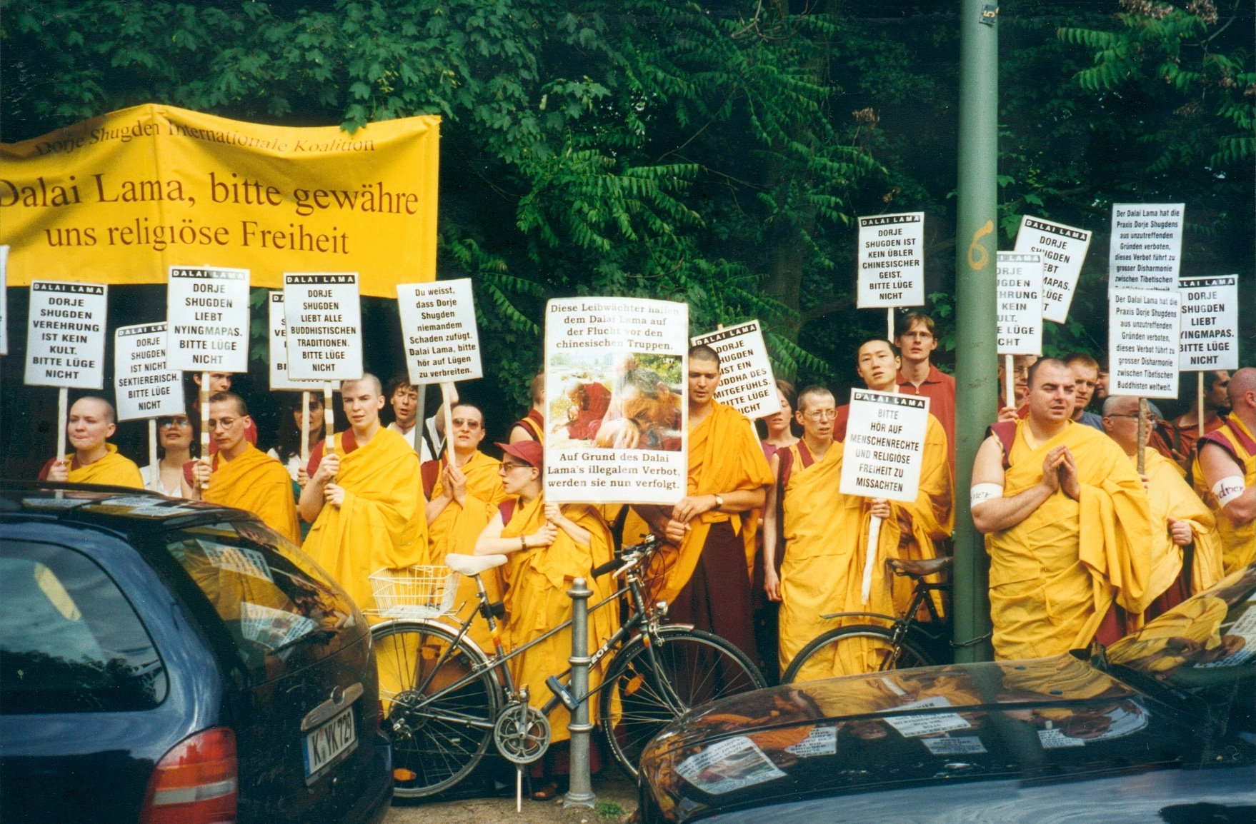 This photo was taken during one of the many New Kadampa Tradition's demonstrations organized worldwide to protest against HH the Dalai Lama's statements on Dorje Shugden reliance. According to the former representative of NKT in Germany, Gen Kelsang Dechen, the slogans on the banner were created by Geshe Kelsang Gyatso himself. The slogans are in German and the content is "You know that Dorje Shugden harms no being, please Dalai Lama stop spreading lies!" "Dorje Shugden loves all Buddhist traditions, please don't lie!"